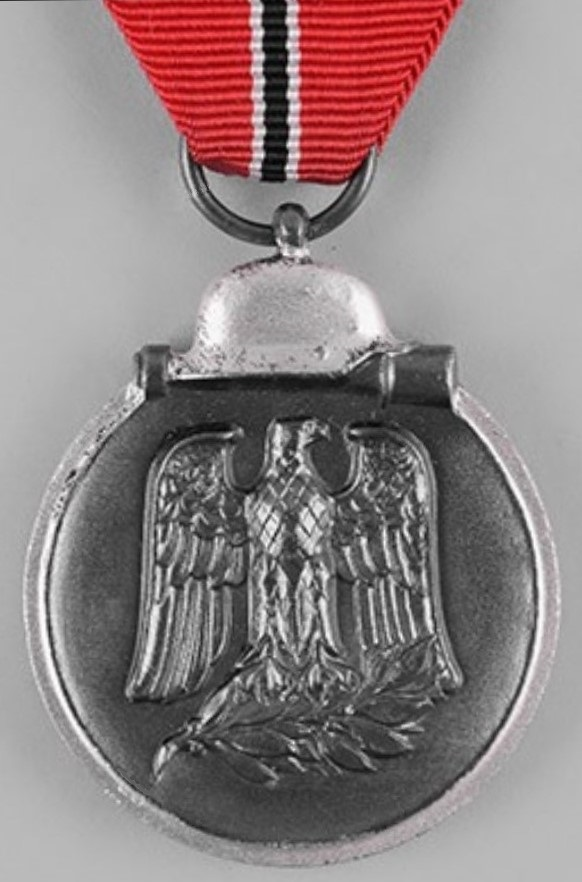 Eastern Front Medal, 1941-42. Obverse. Post war de-nazified version, 1957.